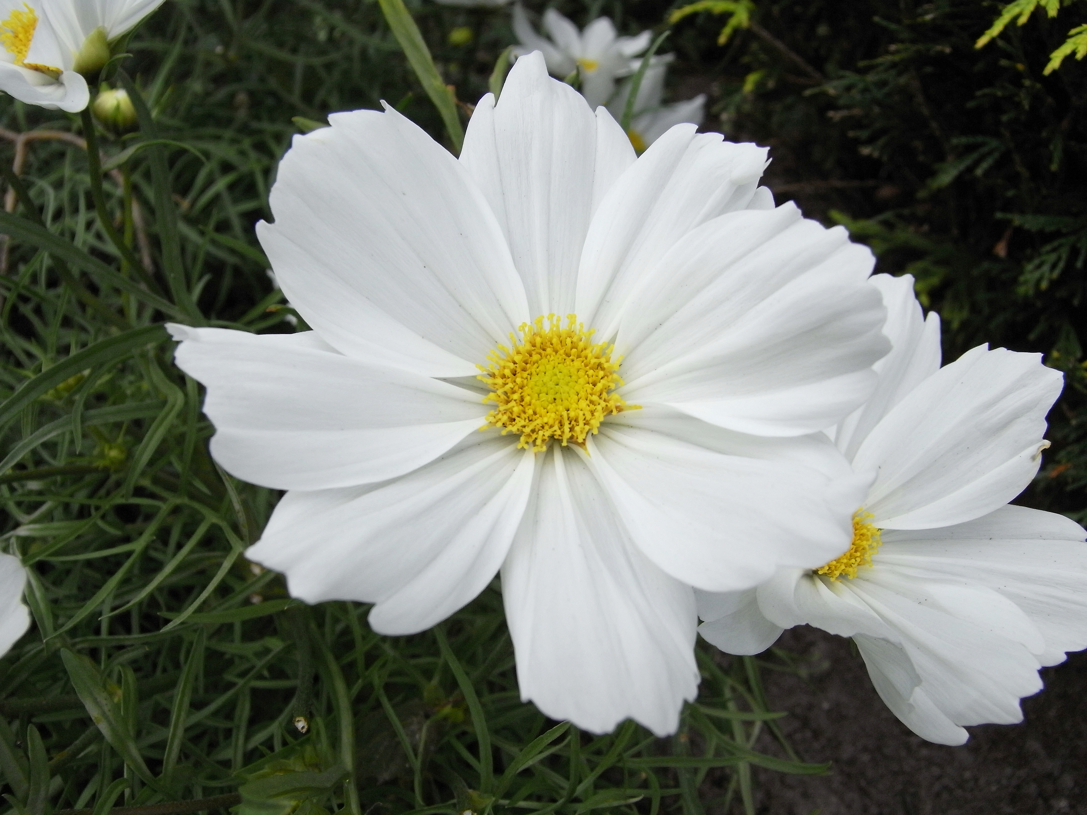 Cosmos bipinnatus